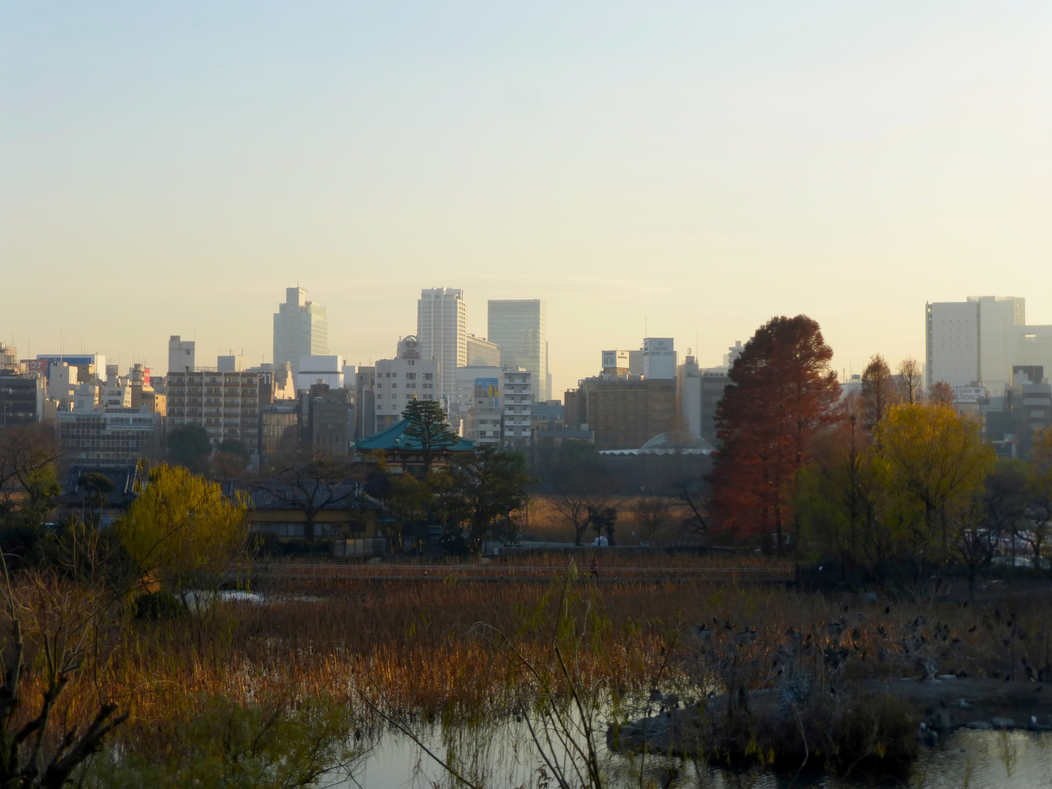 Shinobazu Pond, autumn